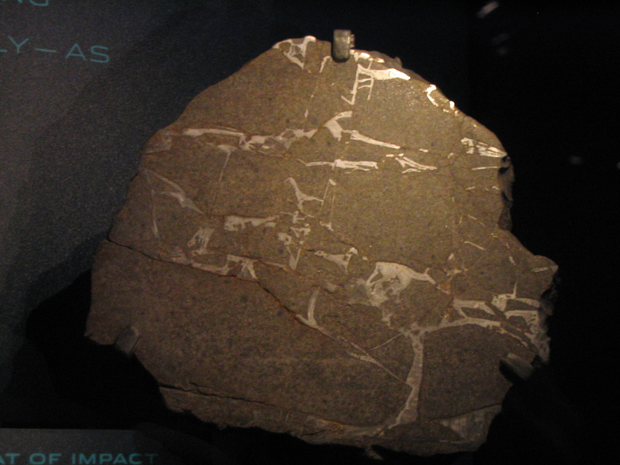 Slice of Portales Valley meteorite. Fell June 13, 1998. Roosevelt County, New Mexico, USA. At the American Museum of Natural History, New York. During formation, this meteor slammed into another with enough force to shatter the rock and liquify the iron, which then filled the crevices in the fractured rock.